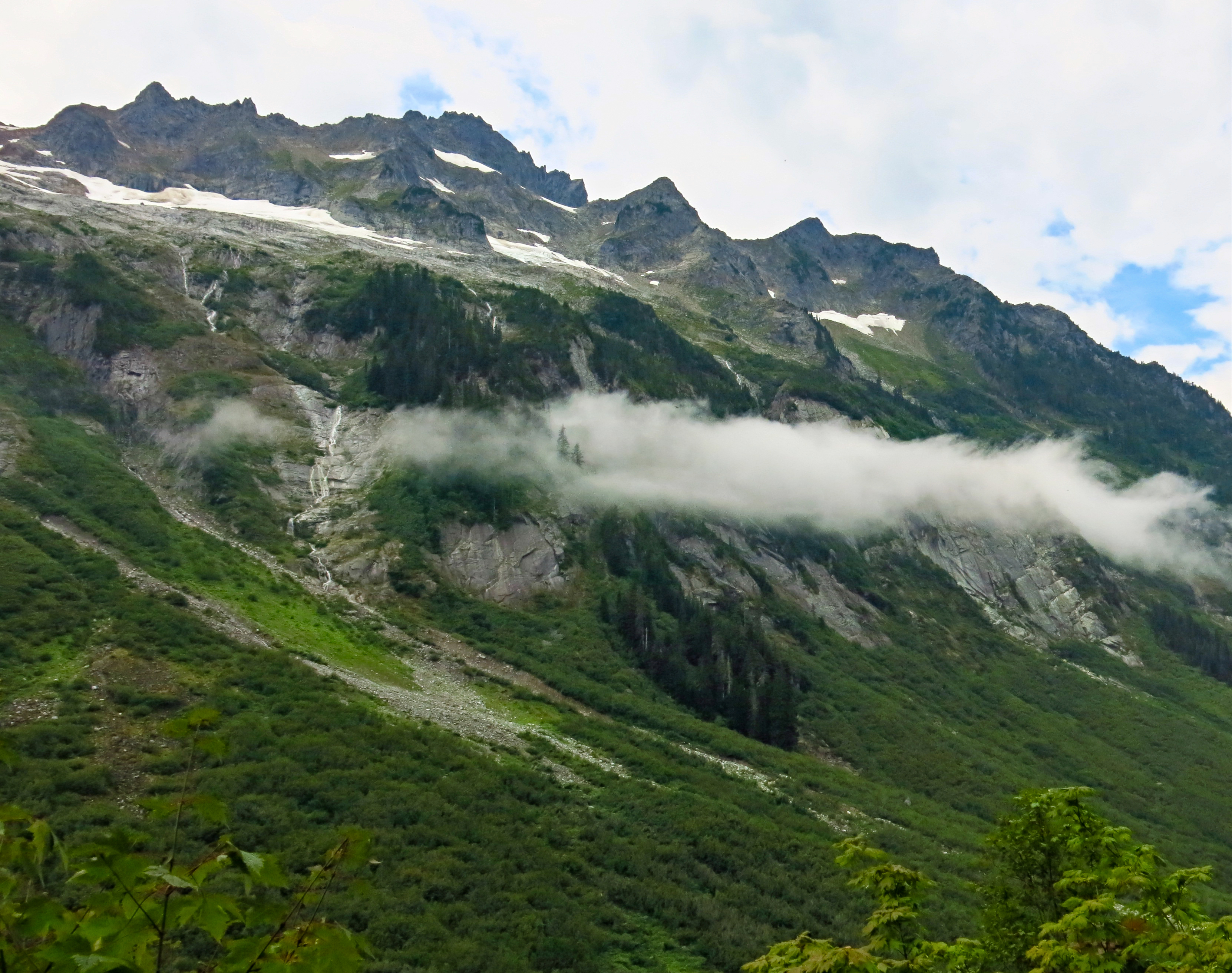 Mount Sefrit's eastern slopes seen from Hannegan Pass Trail in Ruth Creek valley. North Cascades.